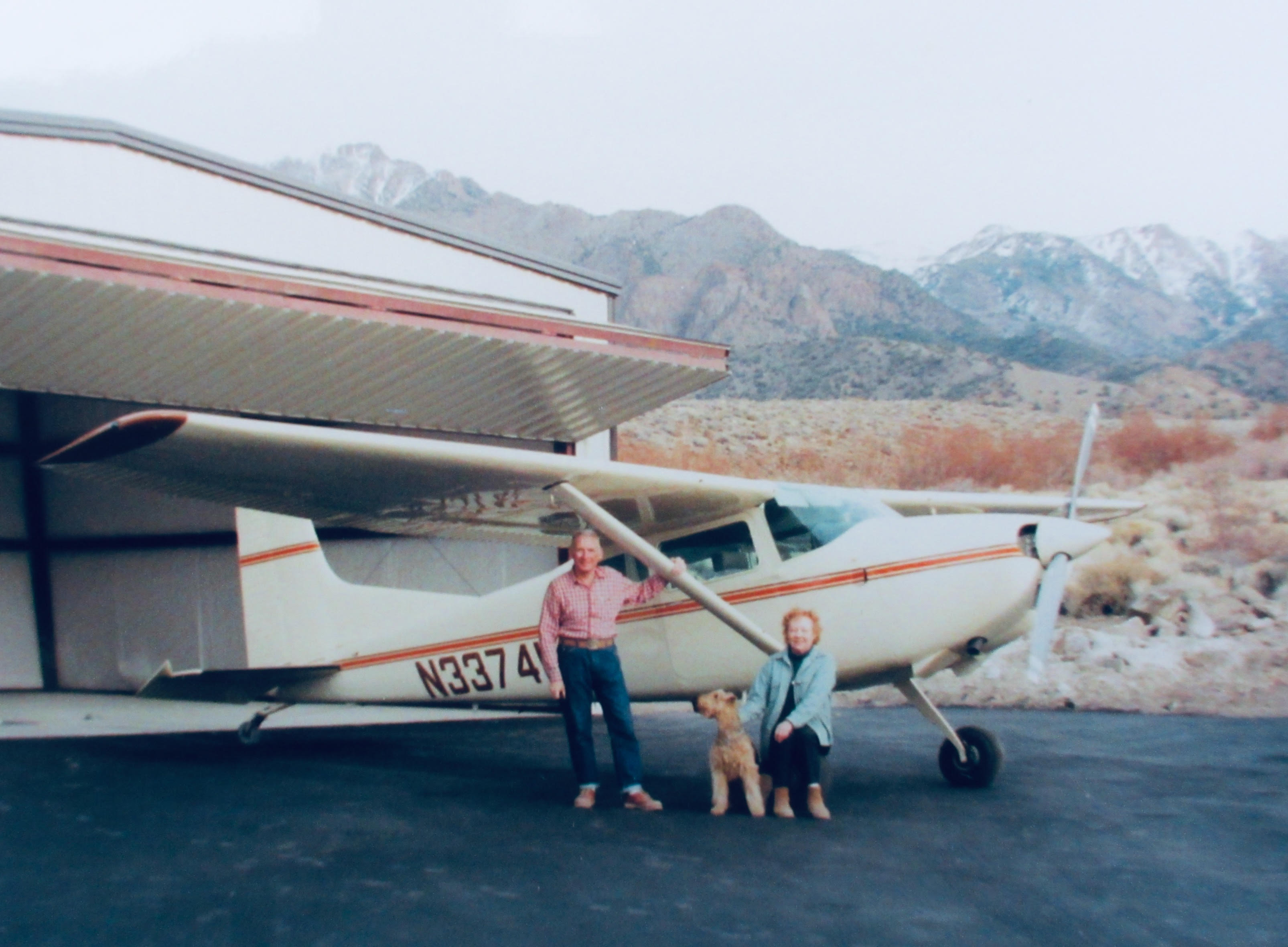 This picture best captures Charles Coleman's personal life and the things he loved most.